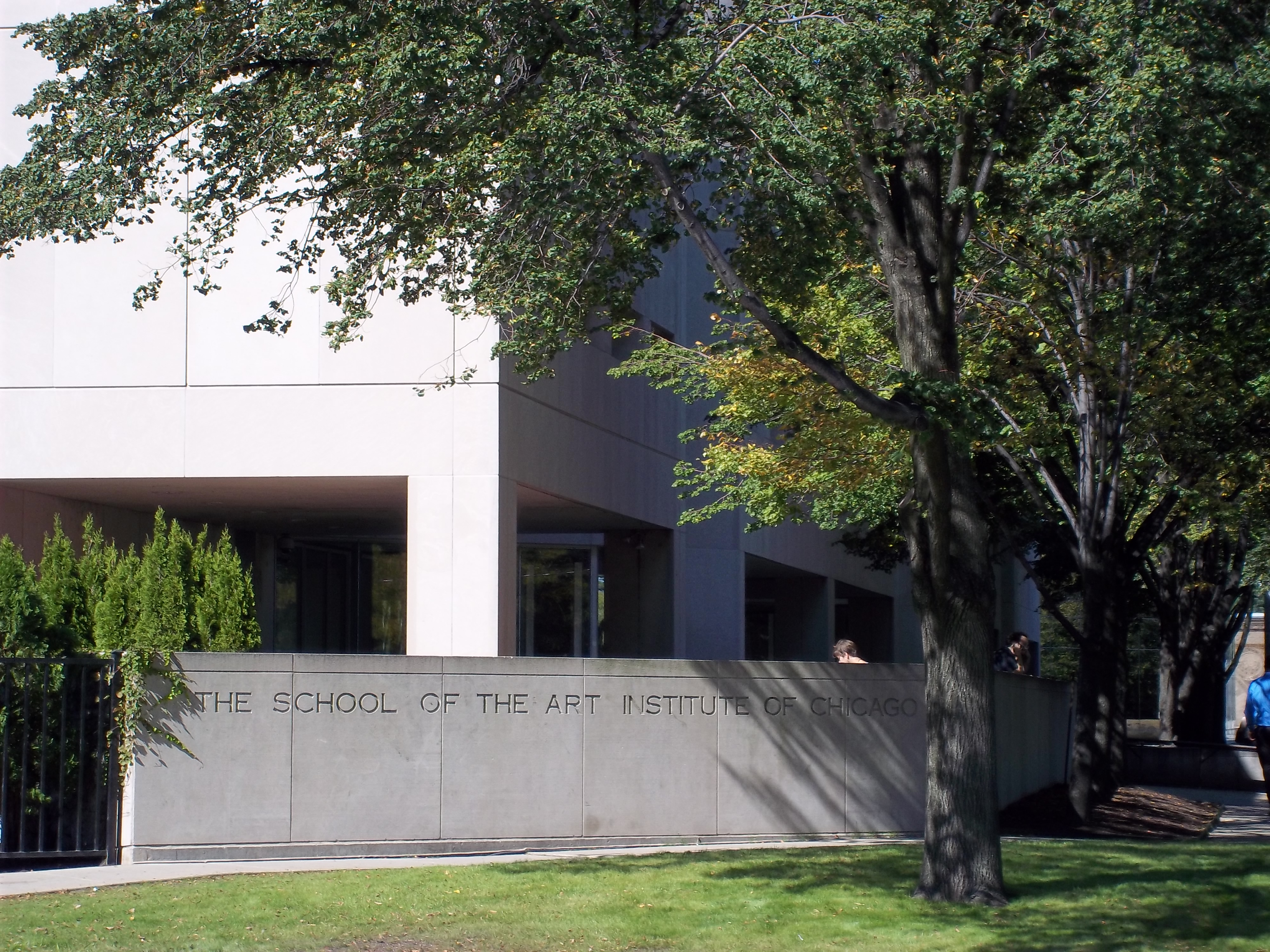 Art Institute of Chicago Grant Park school wing